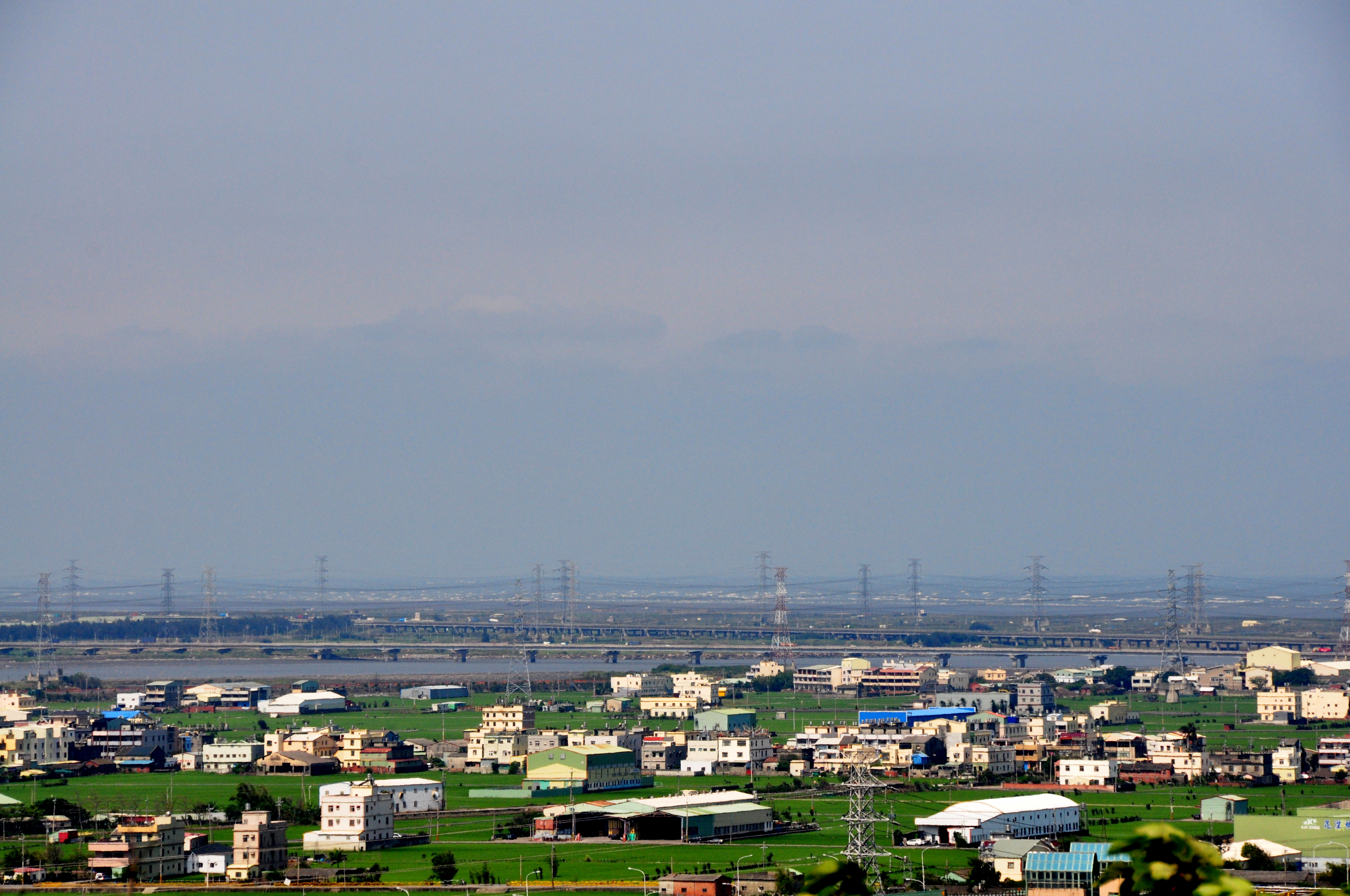 Looking down Chungzhang bridge in Longjing Township,Taichung County.The bridge is a in junction Taichung County and Changhua County important highway.